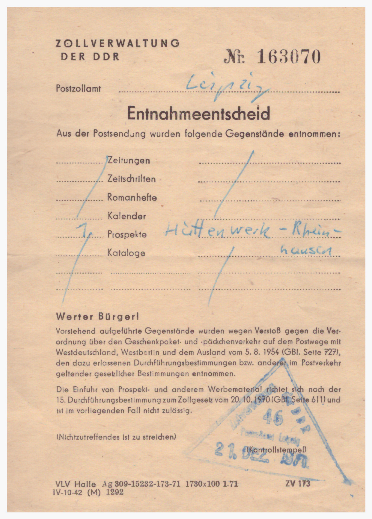 Customs authority removed brochure of metallurgical plant "Hüttenwerk Rheinhausen" from a parcel from West to East Germany